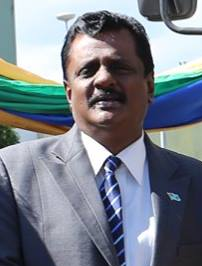 Today, the Fiji Electricity Authority received 7 specialised vehicles and over FJD 400,000 worth of specialised equipment from the Energy Networks Association of Australia to help replace damaged power poles and lines destroyed by Tropical Cyclone Winston. Acting Australian High Commissioner, Karinda D'Aloisio, handed over the vehicles and equipment to the Minister for Infrastructure and Transport, the Hon Parveen Bala, at the FEA Kinoya Depot this afternoon. As part of its support for Fiji post-TC Winston, the Australian Government funded shipping costs for the ENA donation